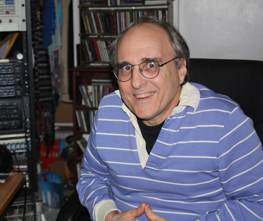 Michael Tearson DJ, in his studio.